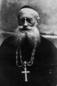 portrait photo of Eduard Michael Johann Maria Baron von der Ropp